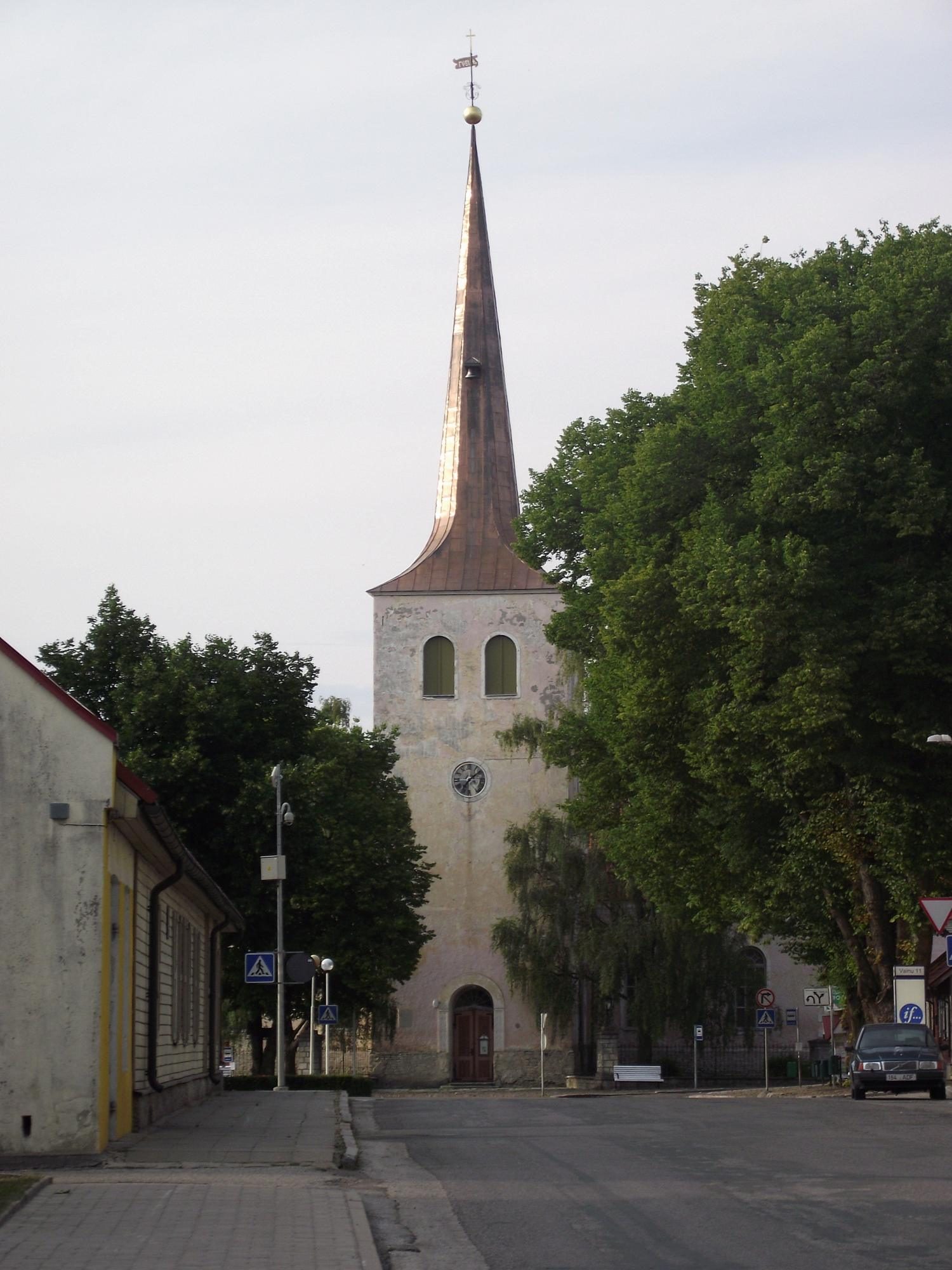 View of the Paide Church from Pikk Street.